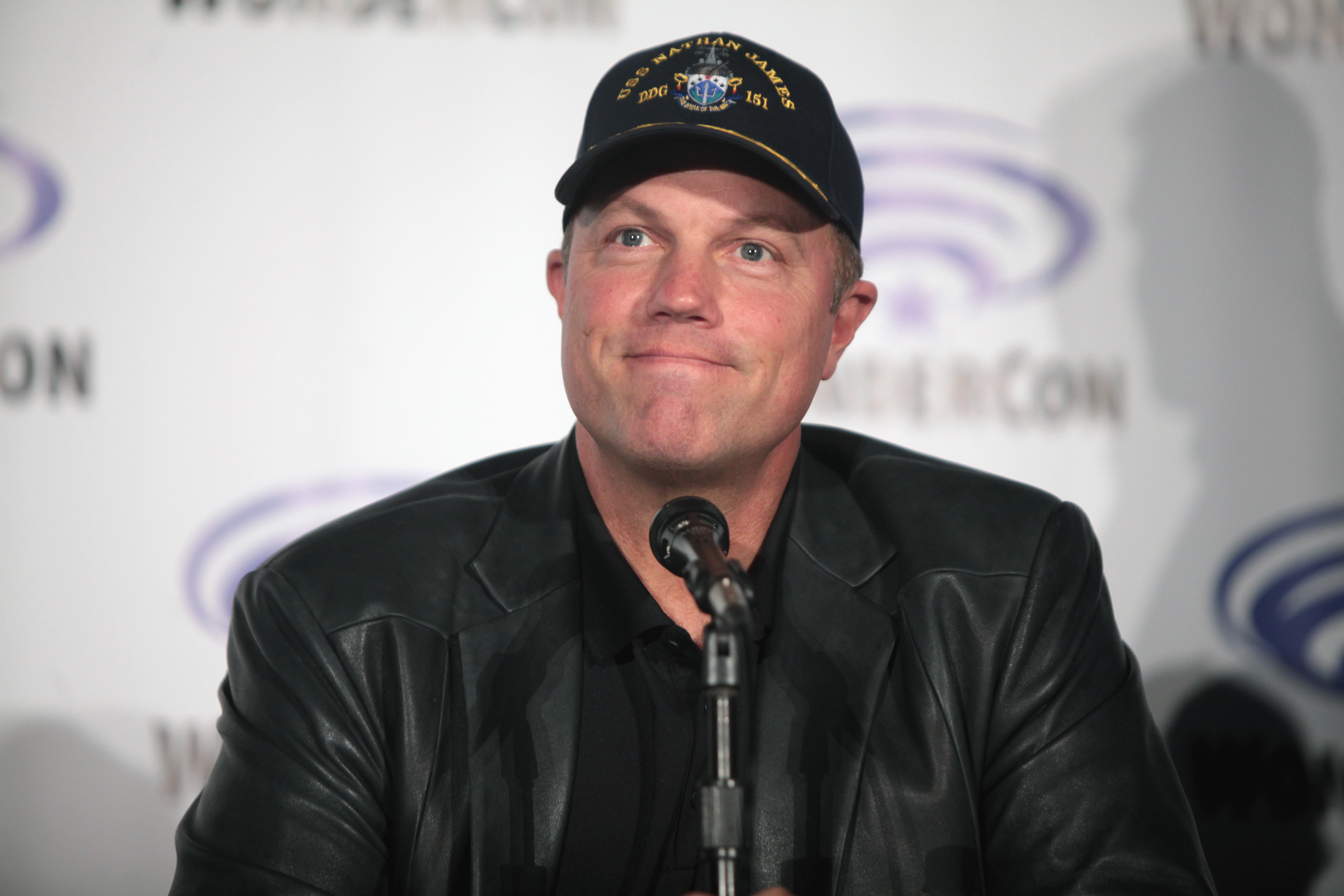 Adam Baldwin speaking at the 2016 WonderCon, for "The Last Ship", at the Los Angeles Convention Center in Los Angeles, California.